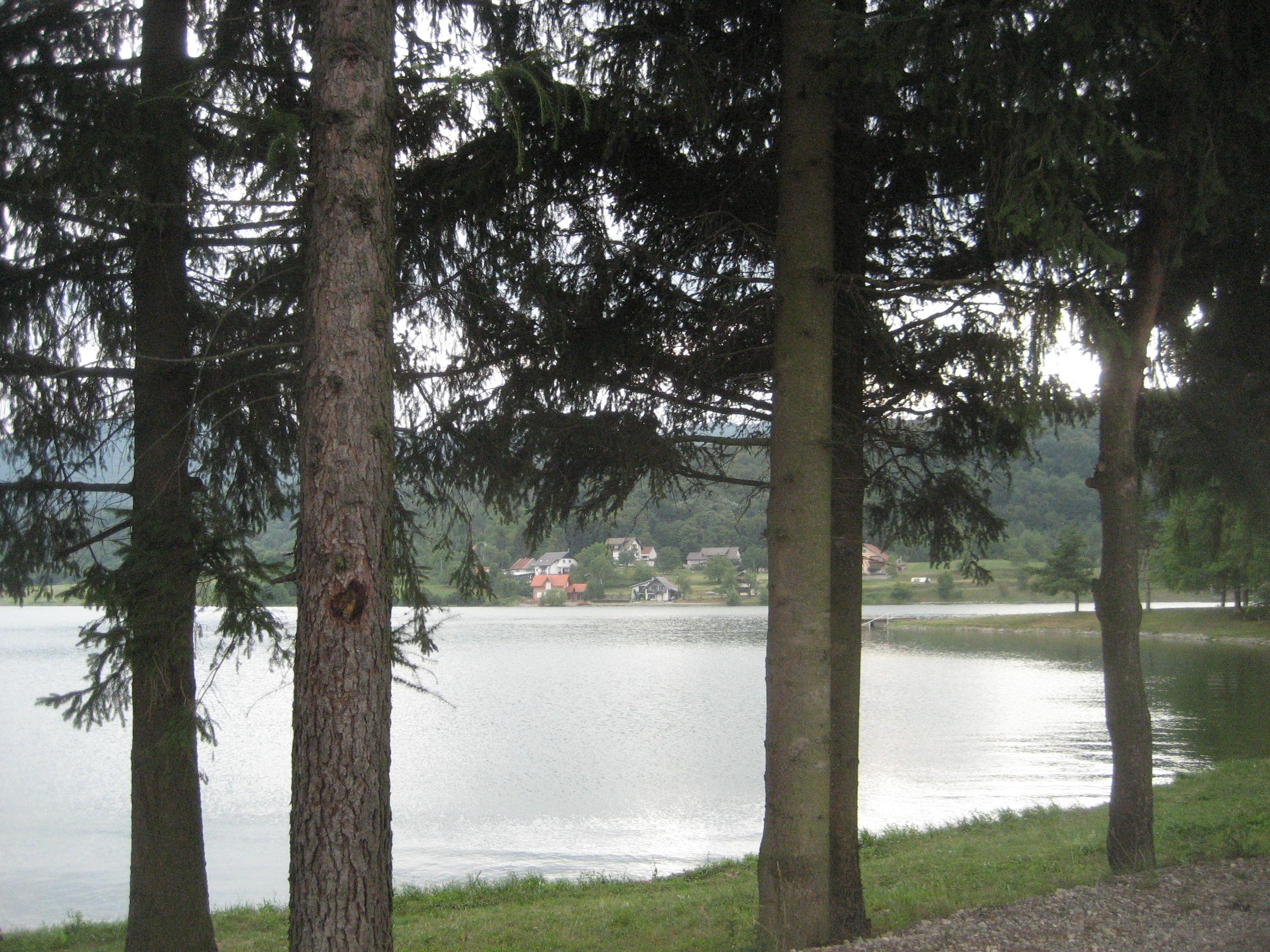 Sabljaci